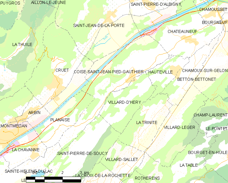 Map of French municipality